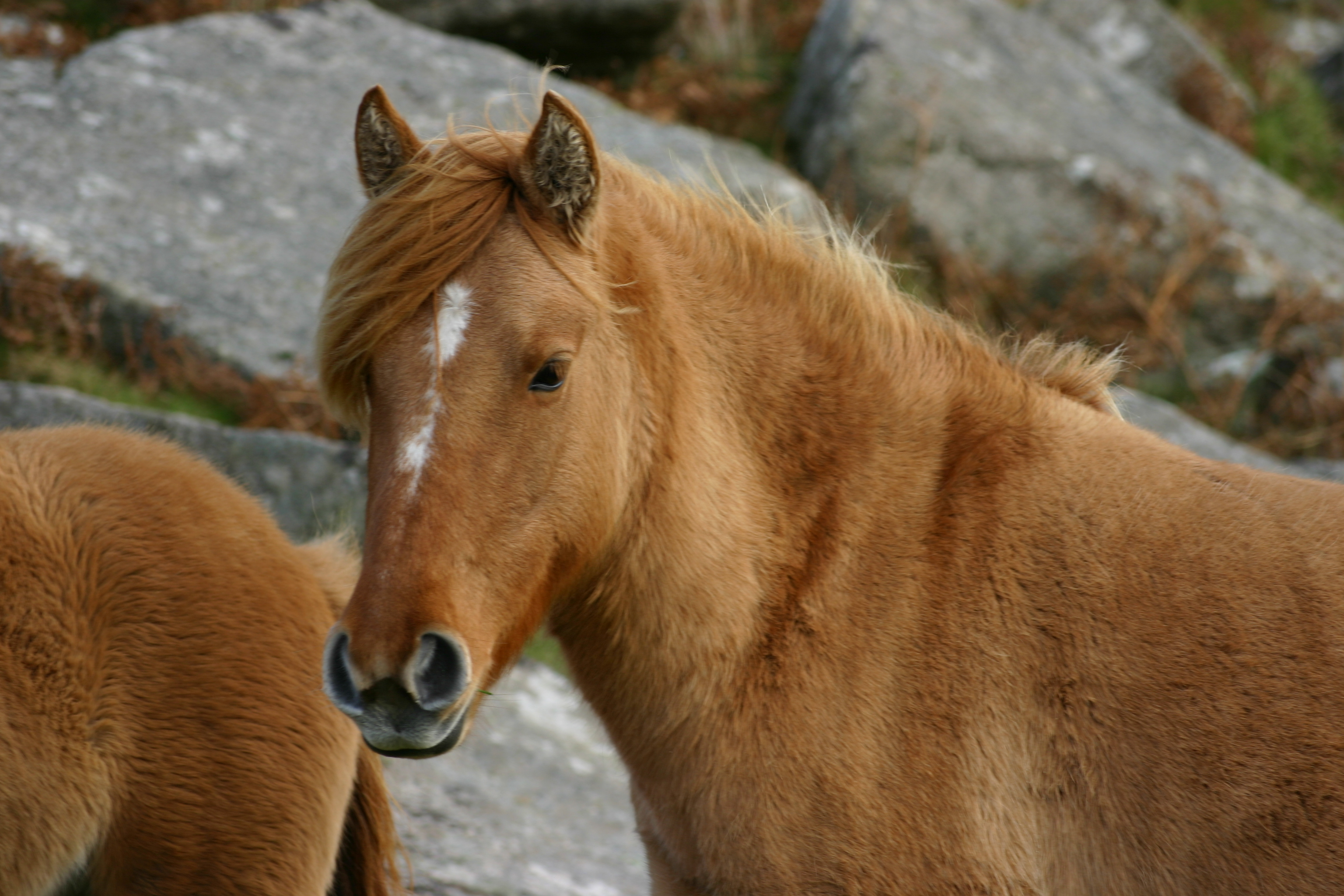 Wild horse on Bodmin Moor, Cornwall, England. geotagged